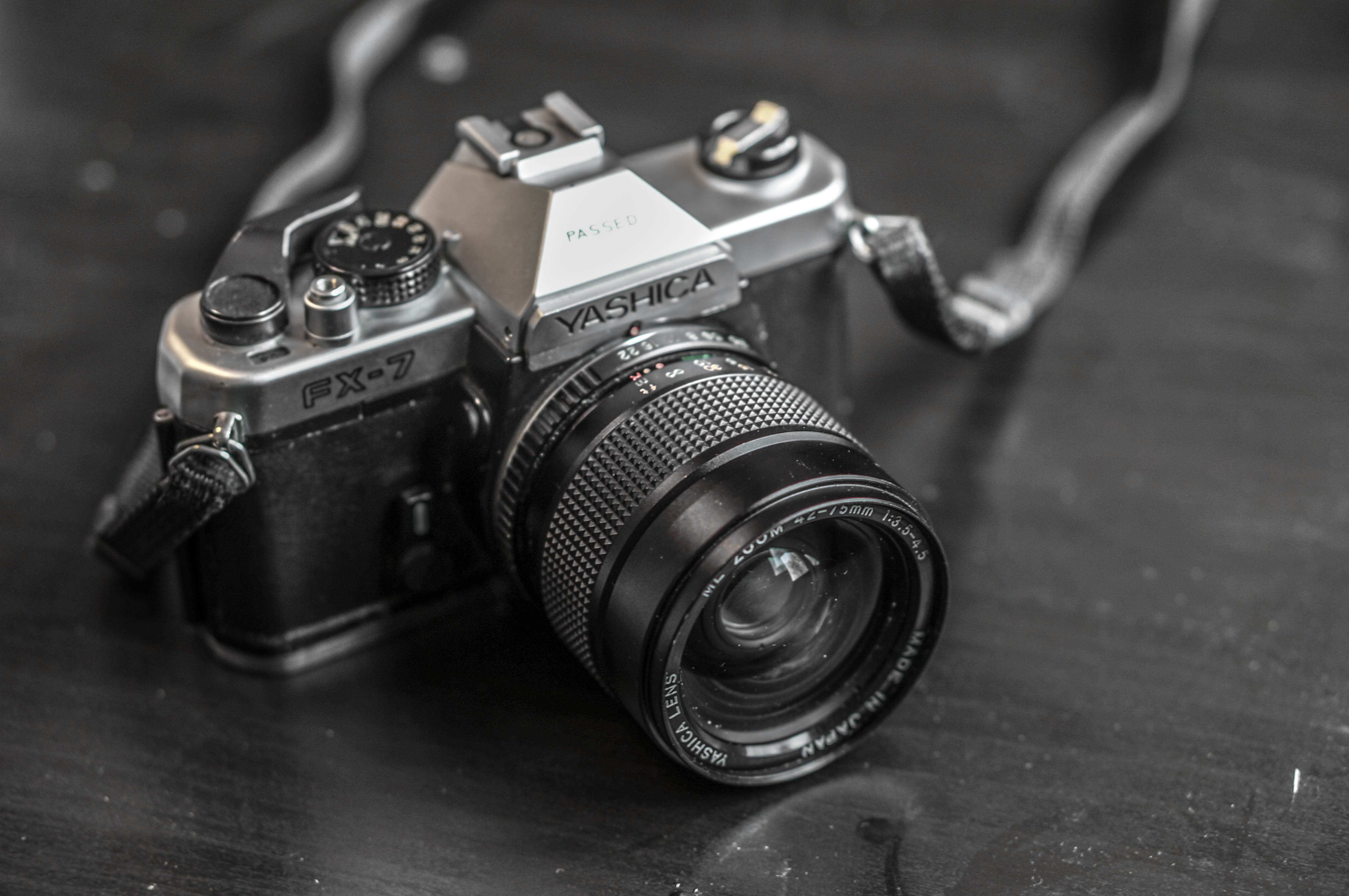 Yashica FX-7. This line was manufactured from 1979 - 1984